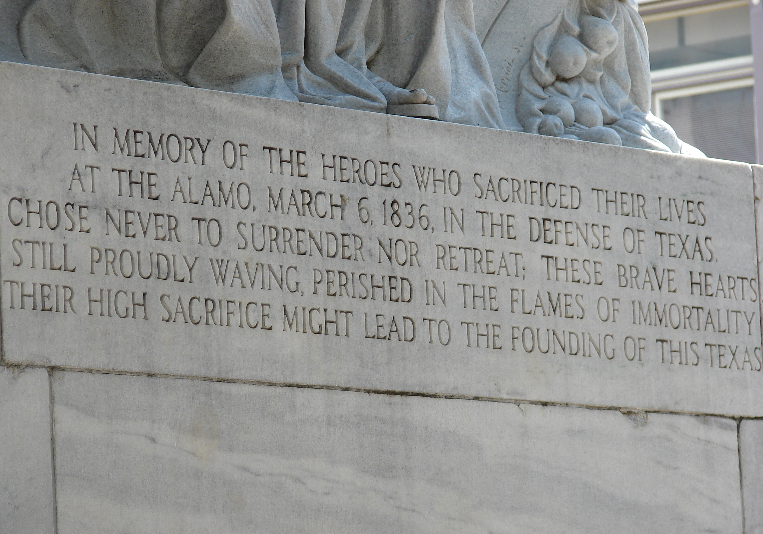 Memorial at The Alamo in San Antonio, Texas (close-up) In memory of the heroes who sacrificed their lives at the Alamo, March 6, 1836. In the defense of Texas "They chose never to surrender nor retreat; these brave hearts with flag still proudly waving, perished in the flames of immortality that their high sacrifice might lead to the founding of this Texas."